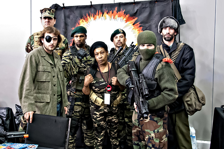 Cosplay at Big Wow! ComicFest in 2013.